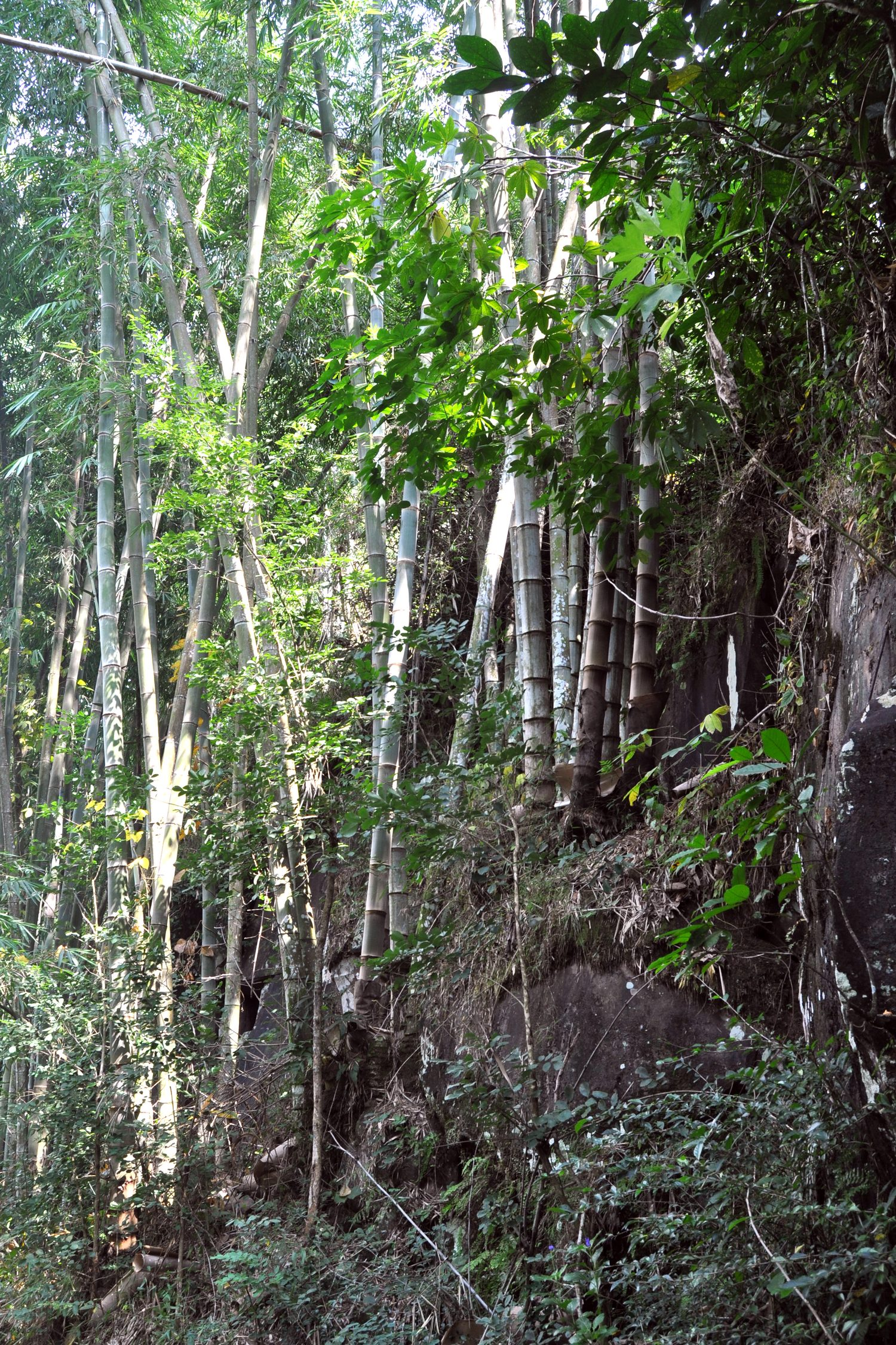 Rough bamboo (Dendrocalamus asper); habits. From Magetan, East Java, Indonesia.